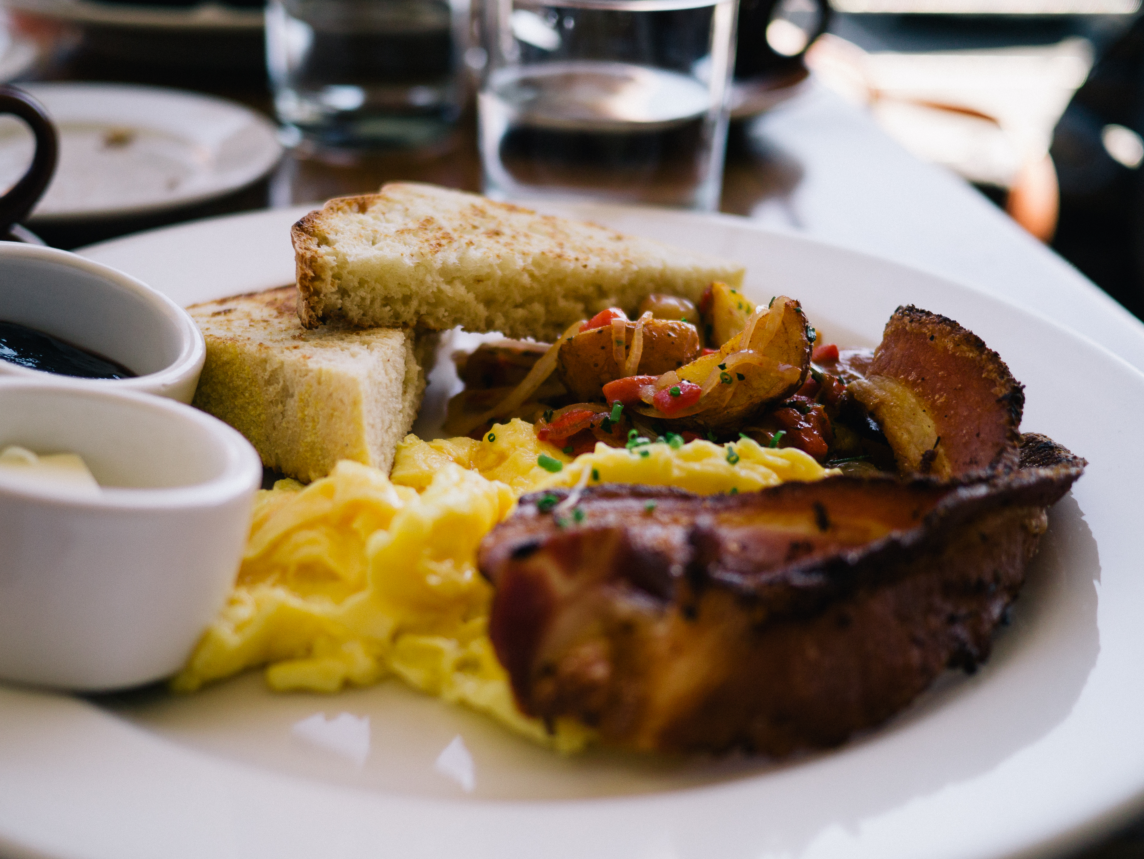 A dish at Irving Street Kitchen consisting of what looks like scrambled eggs, bacon and toast.